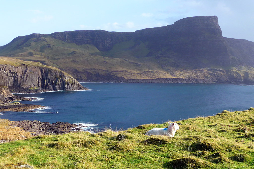 Waterstein Head, one of the highest cliff of Skye, seen from the walkway to Neist Point.